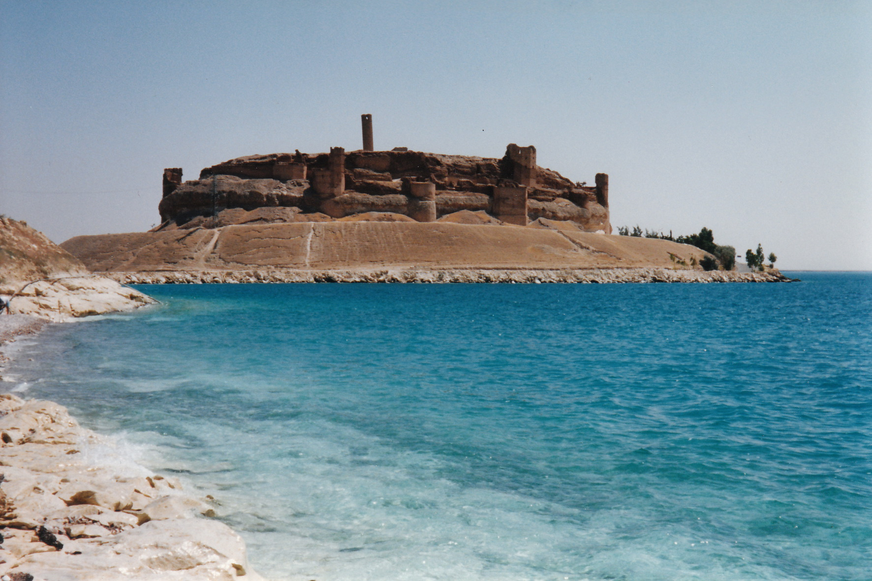 View of Qal'at Ja'bar (Syria) from the north, surrounded by the waters of Lake Assad